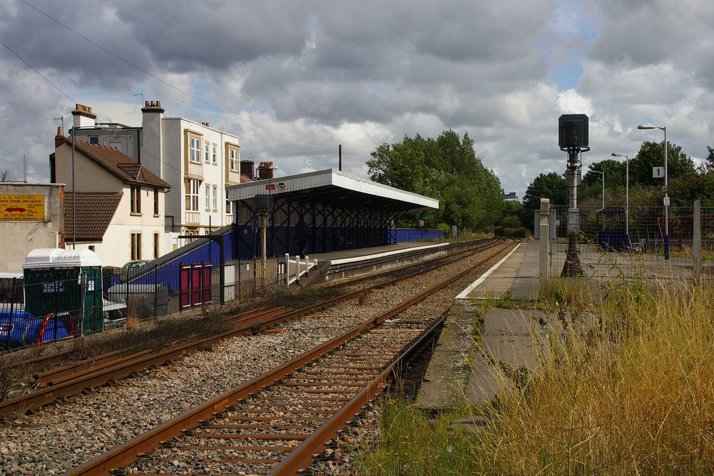 Avonmouth railway station in Bristol, viewed from the level crossing, looking towards the city.